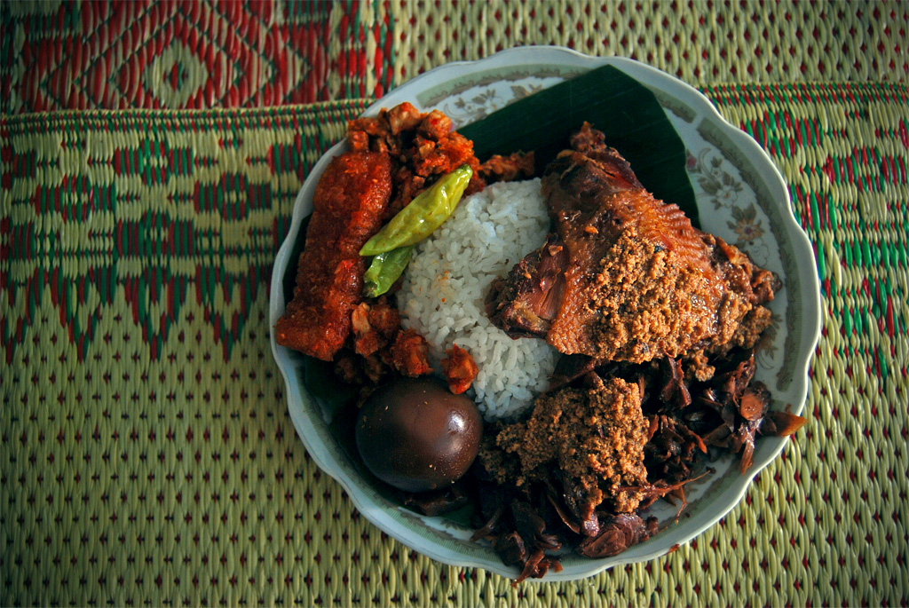 Gudeg Wijilan